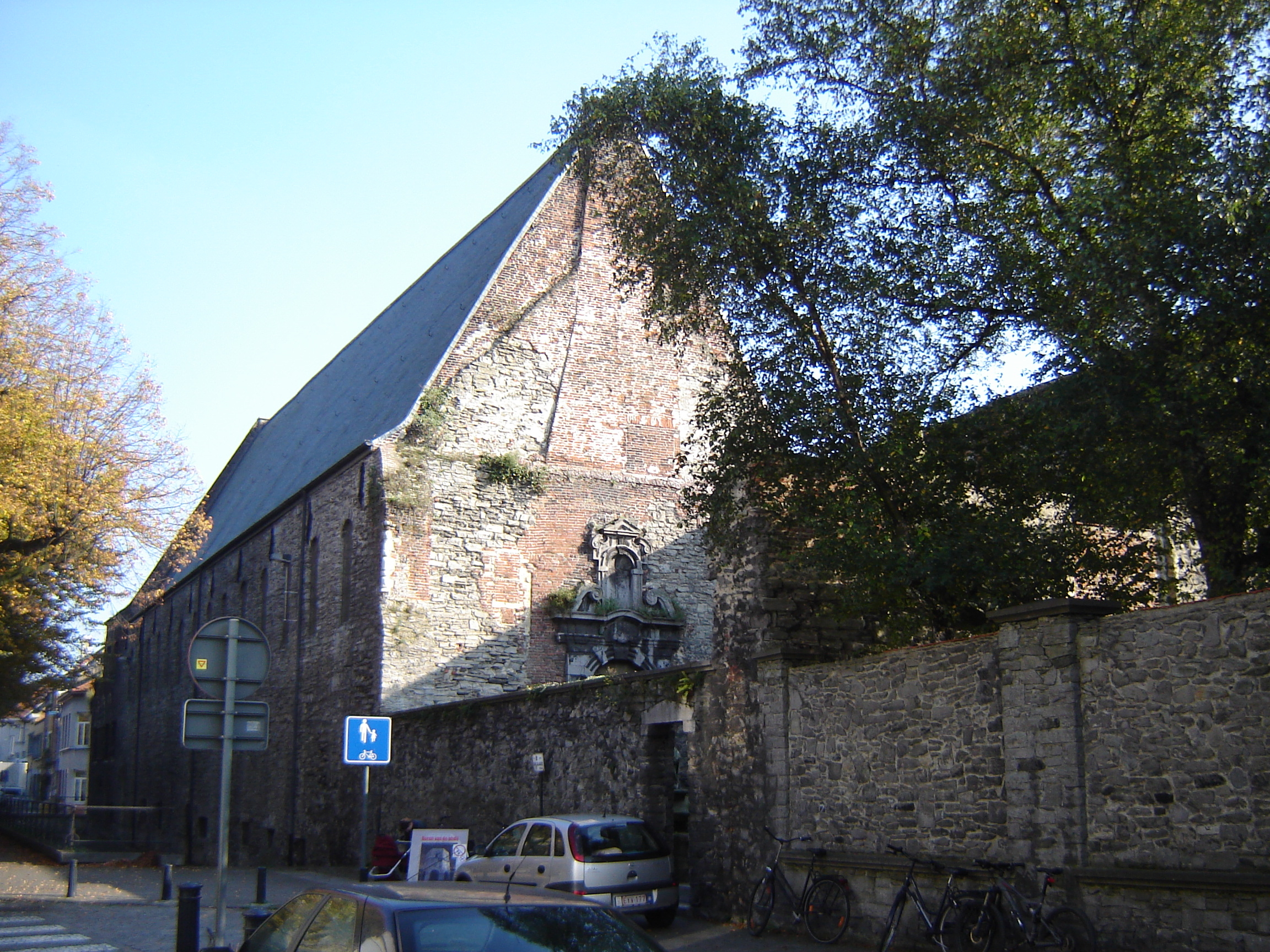 Ruins of the "Sint-Baafsabdij" (Abbey of Saint Bavo) in Gent. Gent, East Flanders, Belgium.